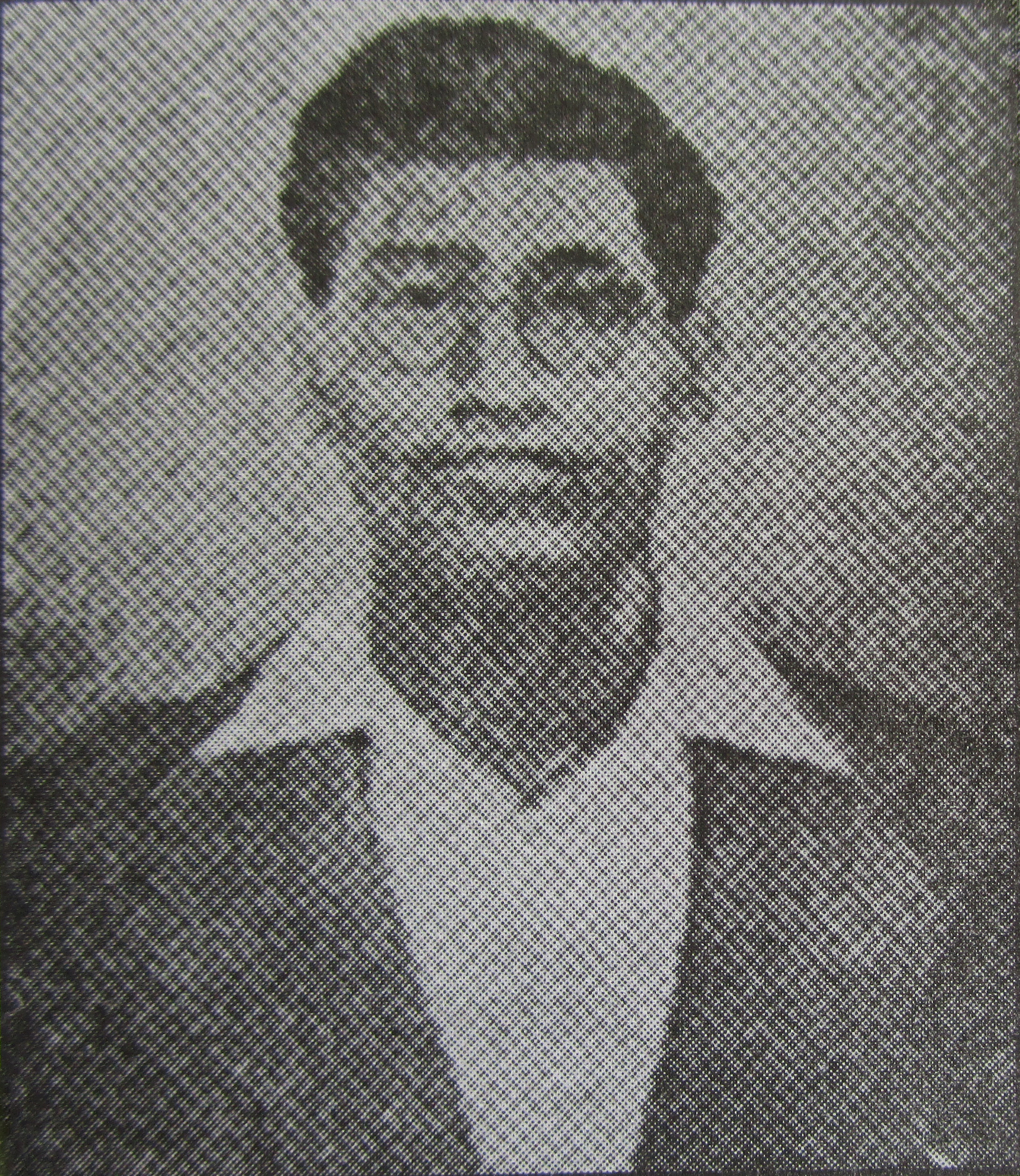 Ramkrishna Biswas